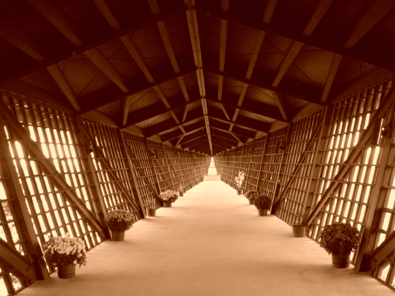 This is a photo looking into the Infinity Room of the House on the Rock in Wisconsin, USA. The room juts out from a cliff face without any supporting beams.